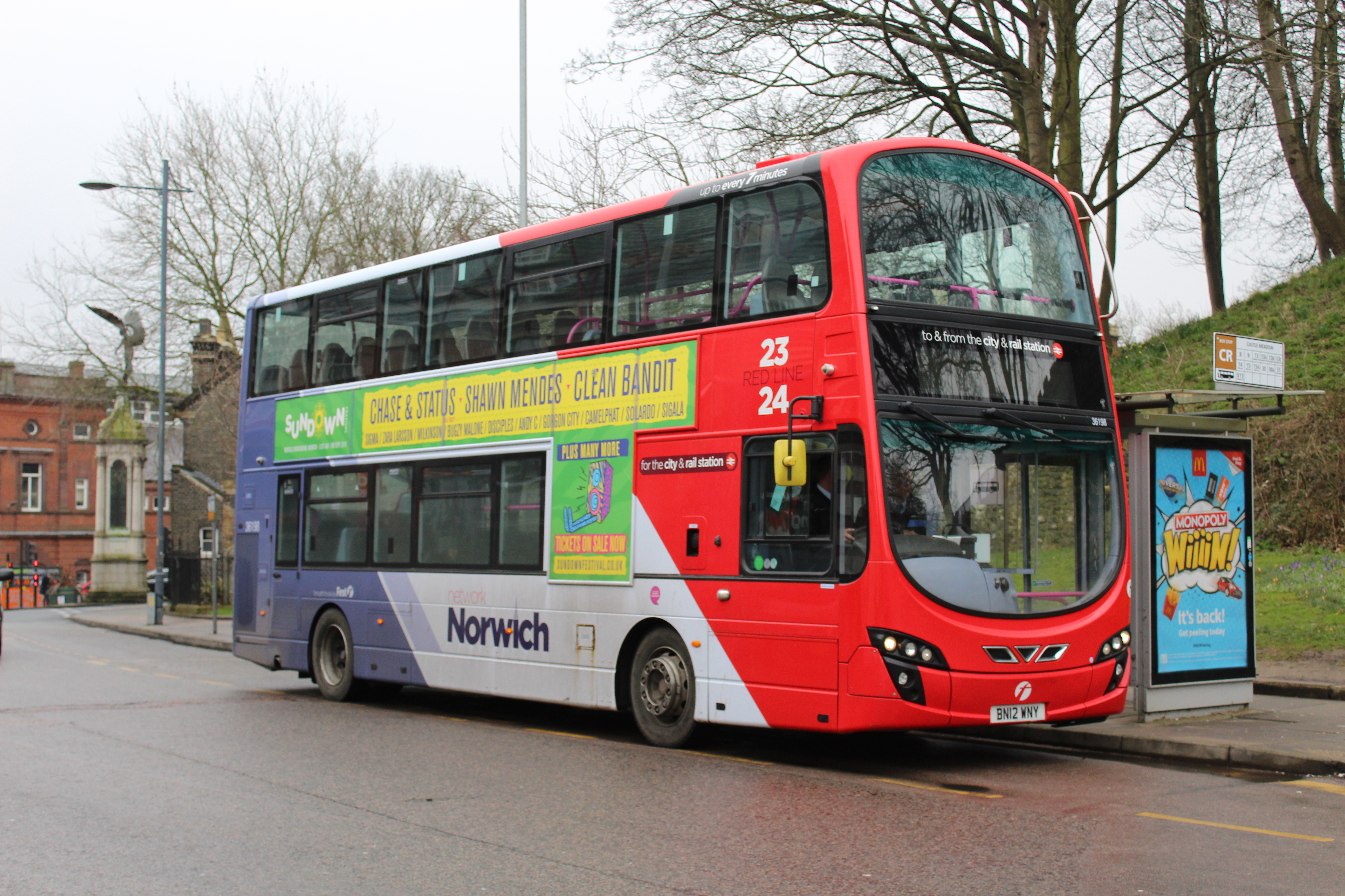 A Volvo B9TL/Wright Eclipse Gemini 2 carrying Network Norwich Red Line branding in Norwich, Norfolk